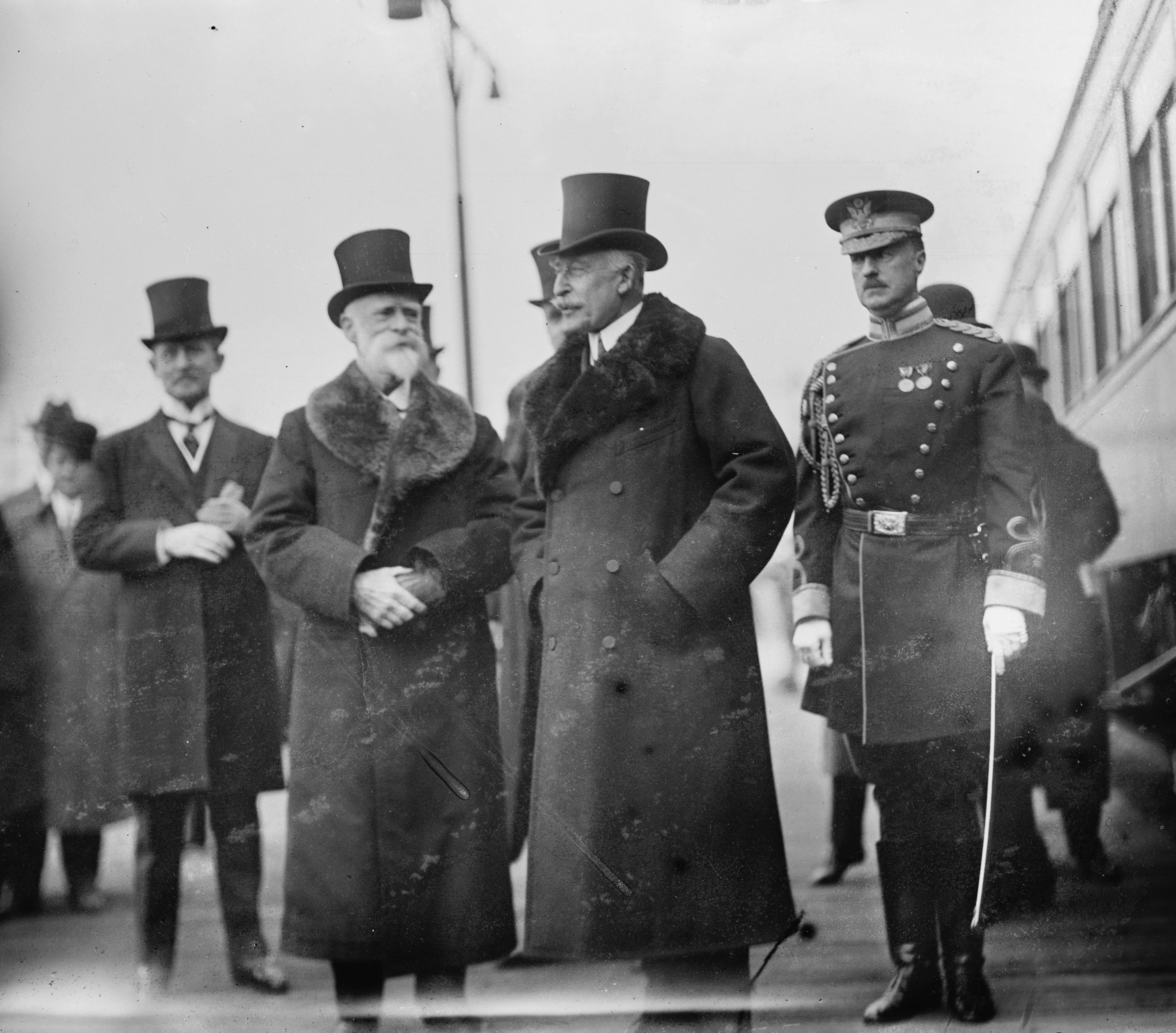 Middleton in-law Viscount Bryce (far left) beside Prince Arthur, Duke of Connaught and Strathearn (died 1942), Governor General of Canada - in top hat. 1911 copyright Library of Congress